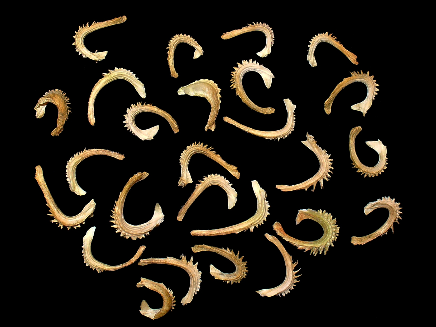 Calendula officinalis, Asteraceae, Pot Marigold, Seeds. The fresh aerial parts of the blooming plants are used in homeopathy as remedy: Calendula (Calen.)